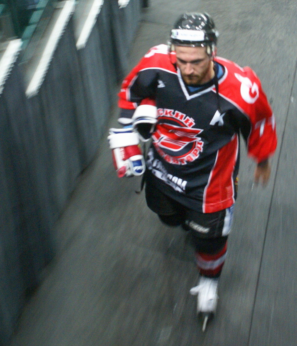 Ice Palace, St.Petersburg, Russia. KHL. SKA-Avangard, 08.10.2007. Just after the hockey game was over.